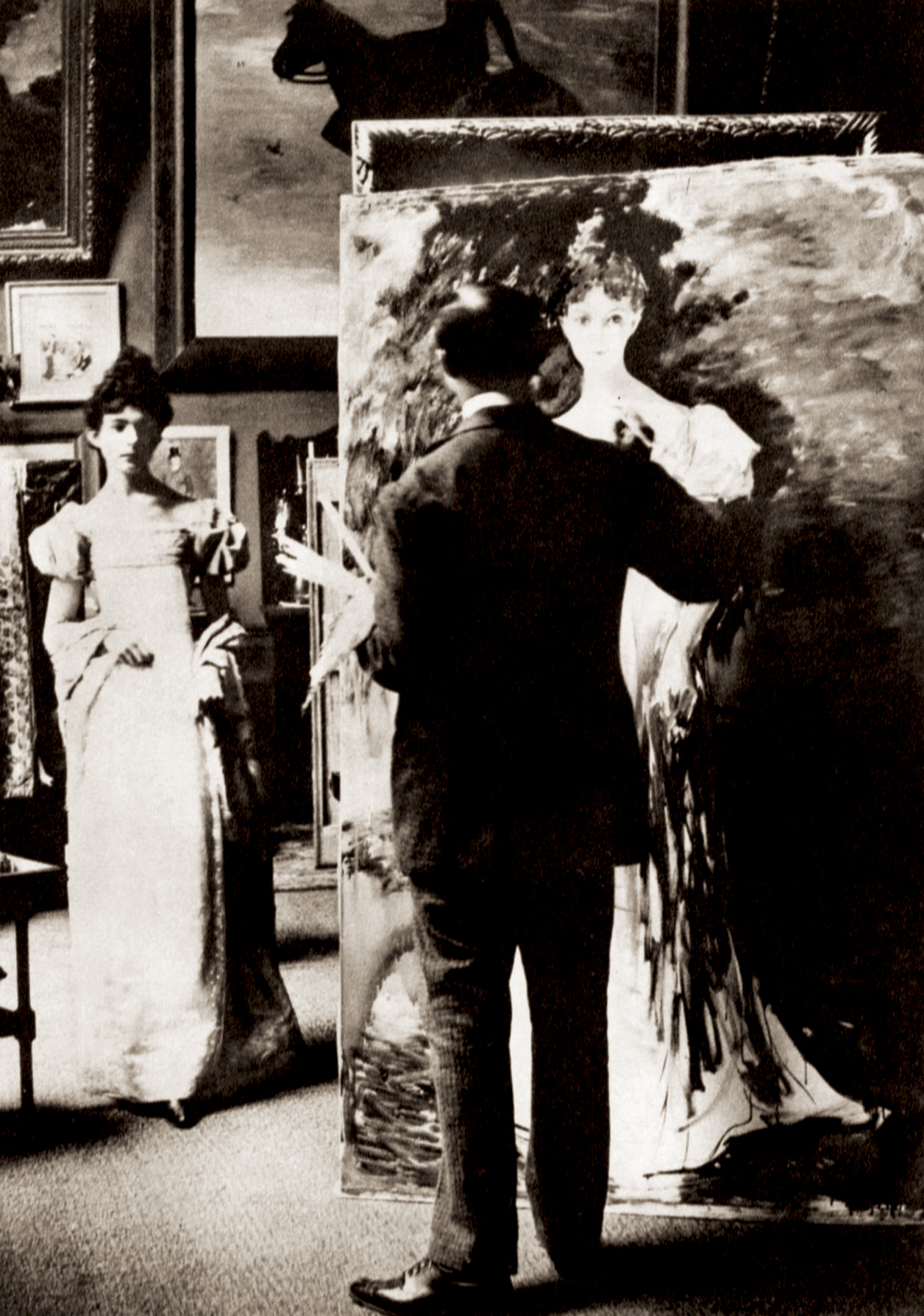 J.E. Blanche painting in his studio